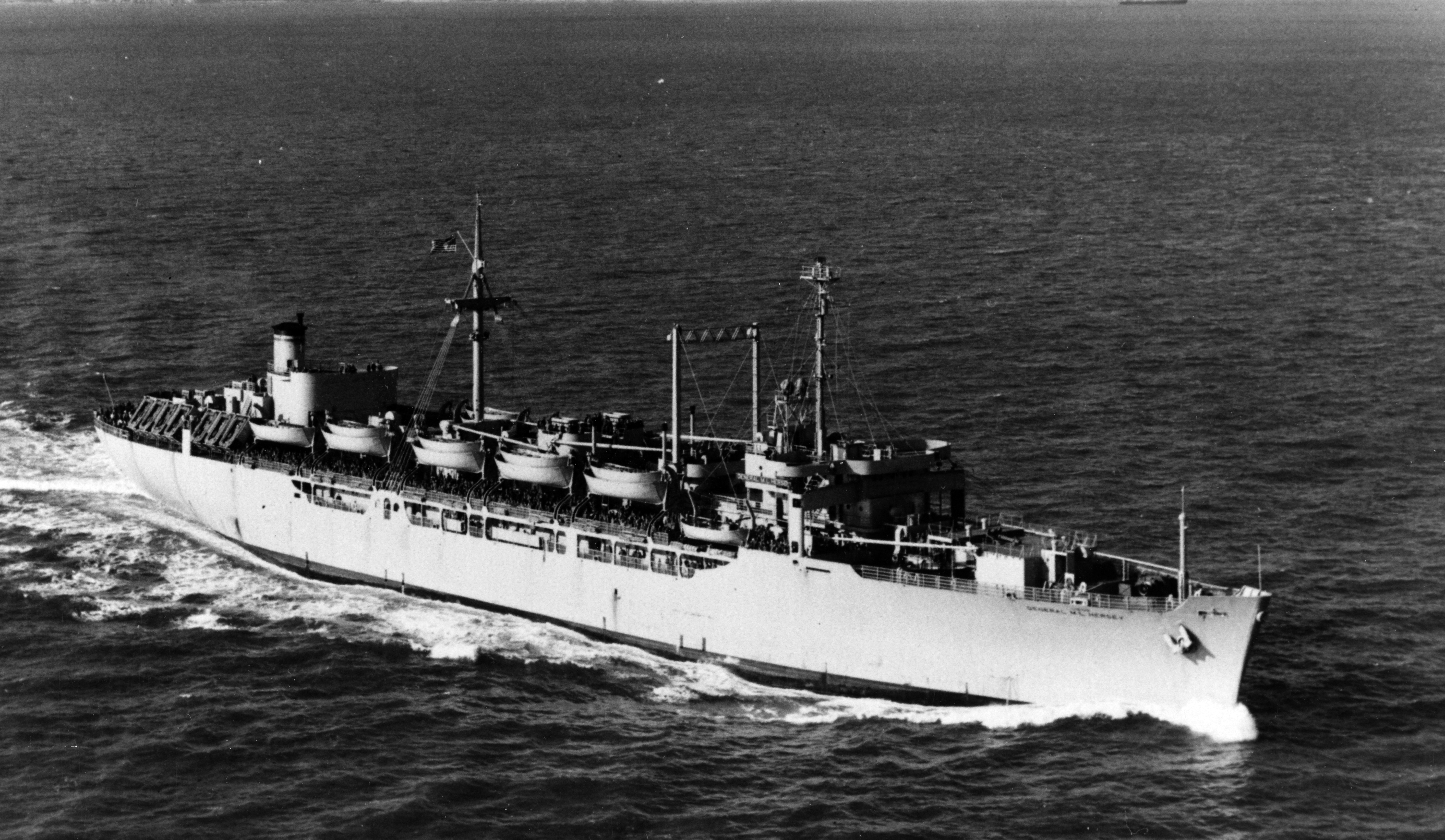 The U.S. Military Sea Transportation Service transport USNS General M. L. Hersey (T-AP-148) underway at sea, in 1952.